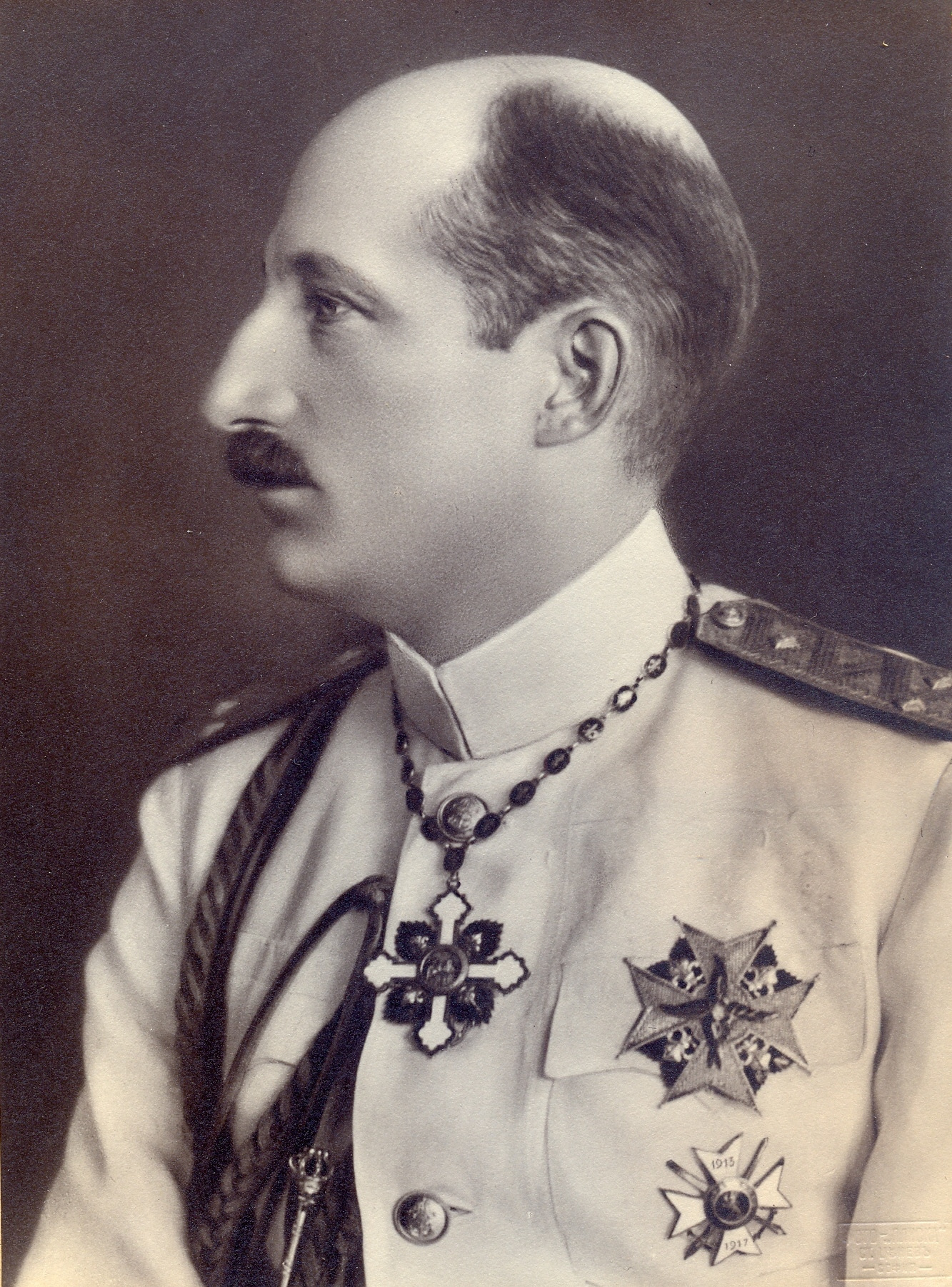 Boris III of Bulgaria, Sofia